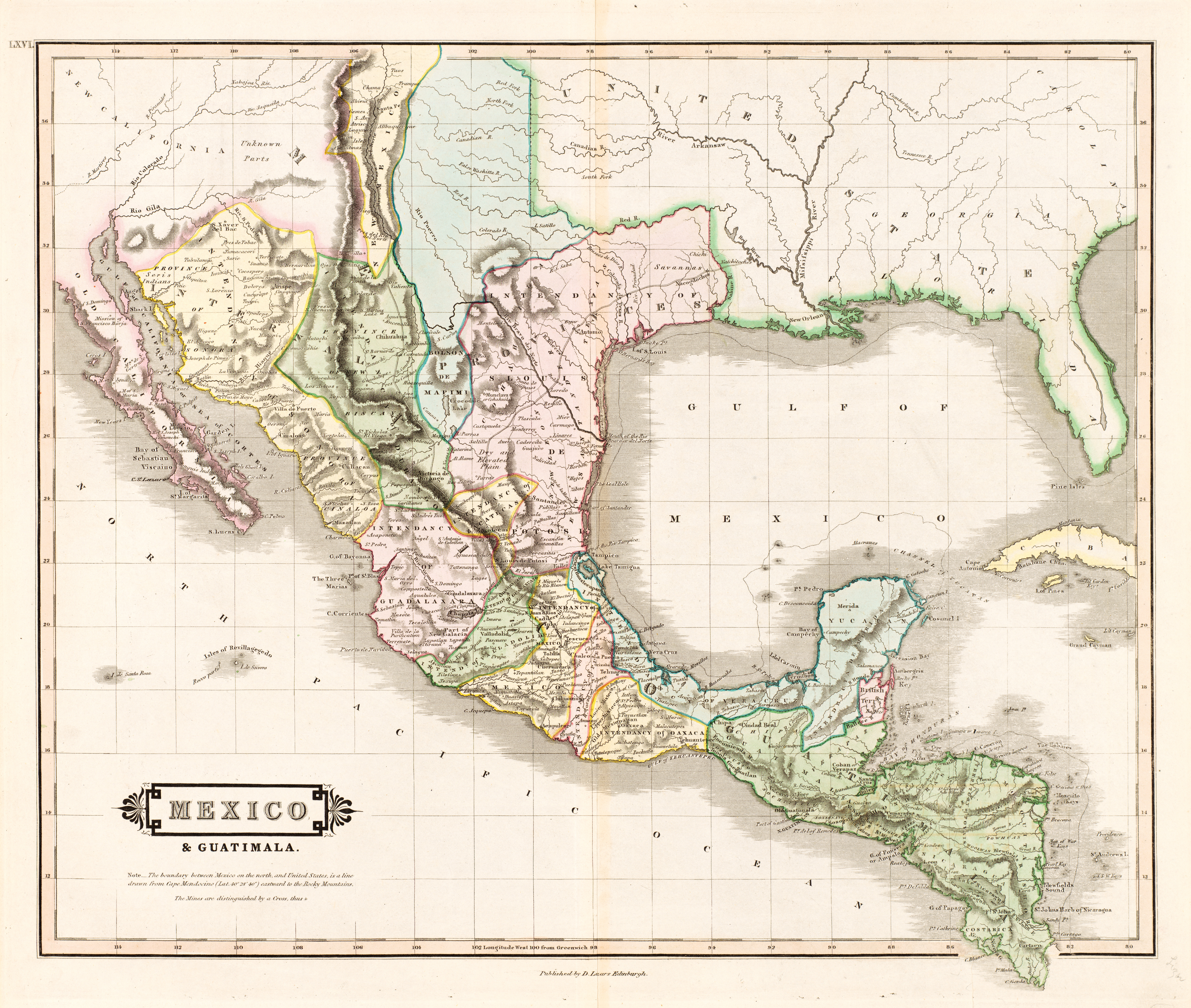 The creator of this map was probably Daniel Lizars II (1793-1875), the son of Edinburgh map engraver and publisher Daniel Lizars I (1754-1812) and younger brother of William Home Lizars (1788-1859). Shortly after producing the map, Daniel II went bankrupt in 1832 and emigrated to Canada in 1833. Lizars' map shows Mexico's administrative districts as Intendencies (Intendencias) and Internal Provinces (Provincias Internas) dating from the Spanish era. His depiction of the area that became Texas is notably jarring to modern viewers because his map further exaggerated some of the cartographic errors of his predecessors and contemporaries: particularly, a southerly "dip" of the middle Red River and the southerly courses of the Trinity, Brazos, and Colorado Rivers (which actually flow southeasterly). Settlements shown include Nacogdoches, "St." Antonio, and "Loredo". Interestingly, Lizars included the "British Territory" that became British Honduras or Belize. British logging settlements existed in the territory by the late eighteenth century and, although the British government had been hesitant to create a colony for fear of provoking the Spanish, settlers there were largely self-governing.